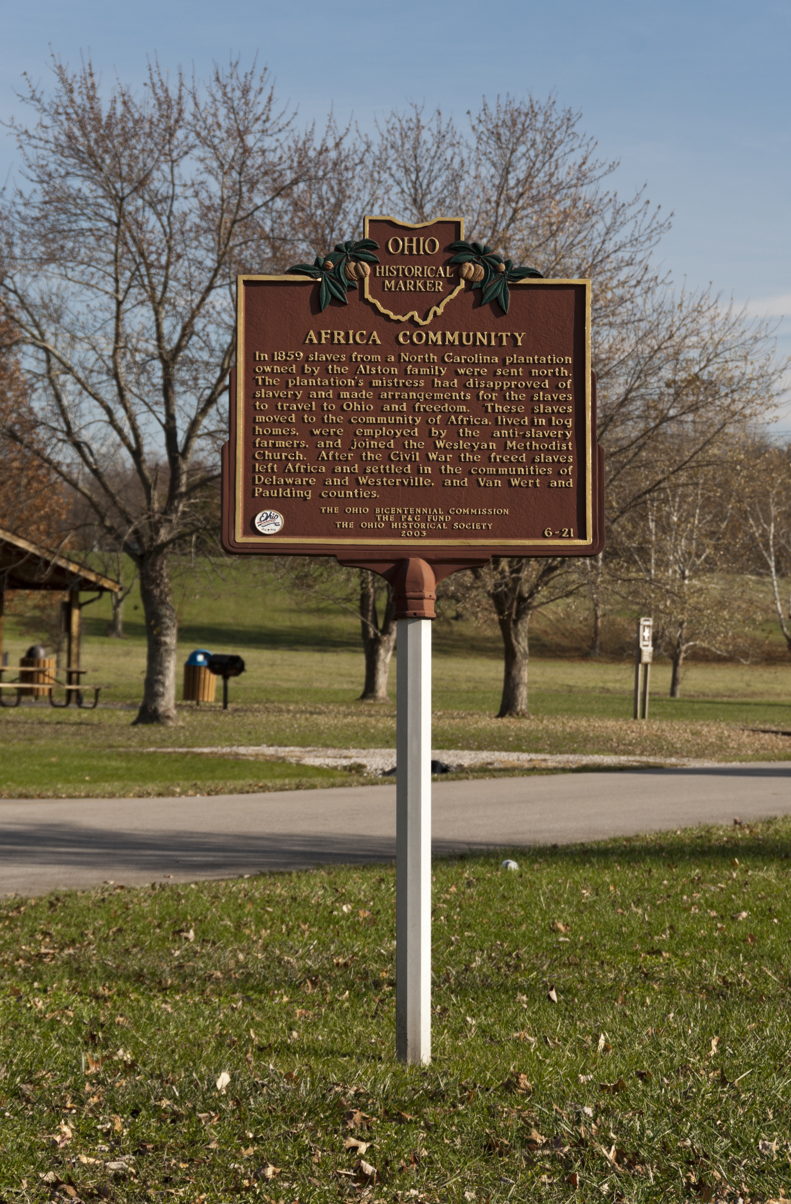 Africa Community Historical Marker (Side B) commemorating the area as a place where freed slaves settled after having escaped slavery in the South, specifically the state of North Carolina. Erected in 2003 in associated with The Ohio Historical Society. (Marker Number 6-21.)